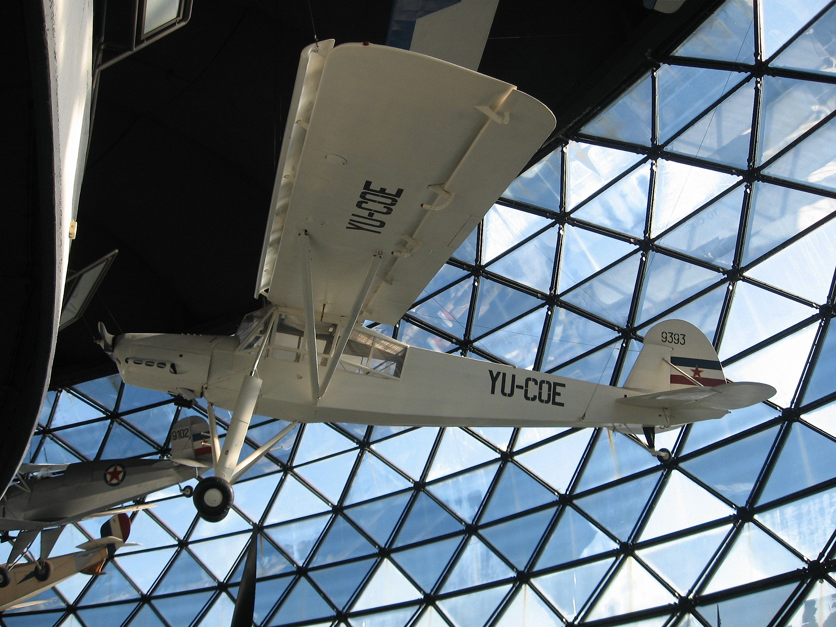 Fiesler Fi-156 Storch